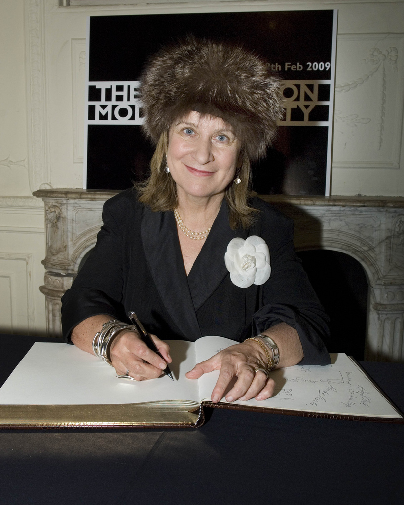 Helena Kennedy, Baroness Kennedy of The Shaws in London, England. She signs to pledge her support to The Convention on Modern Liberty at the start of a campaign at The Foreign Press Association in Pall Mall, London last night on 15 January 2009.